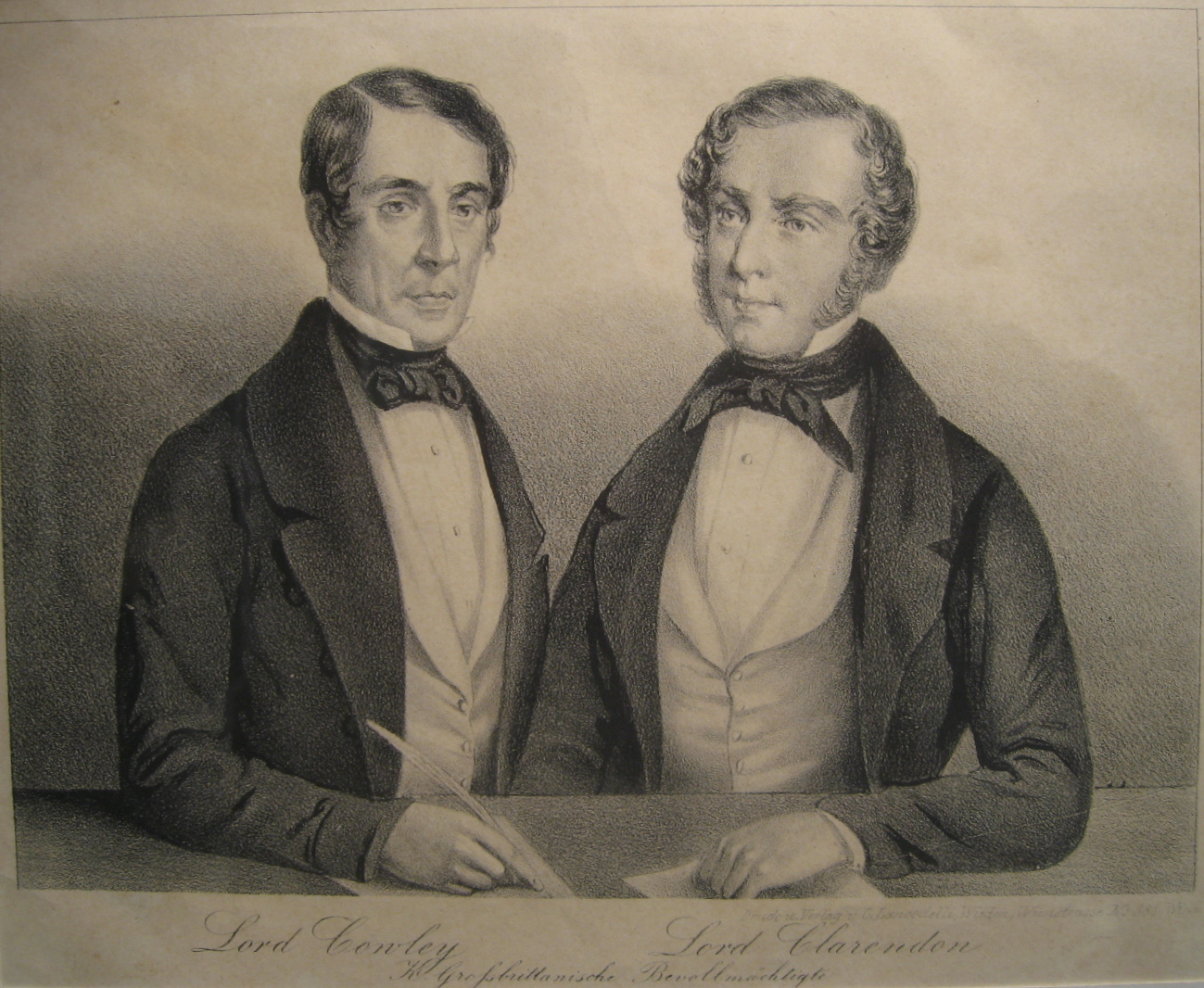 Lord Cowley, Lord Clarendon, Plenipotentiaries of Great Britain